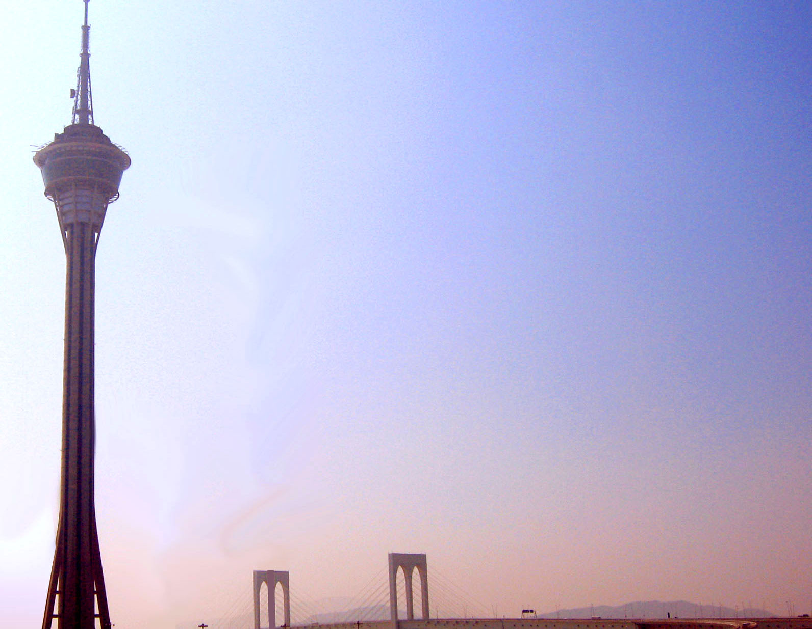 Macau Tower over clear skies